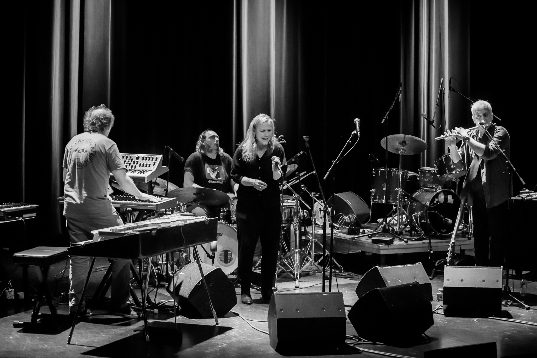 Arendal Sessions at Norwegian music festival Canal Street, 2015. Anneli Drecker joins in impro with Bugge Wesseltoft, Paolo Vinaccia, and Shri.